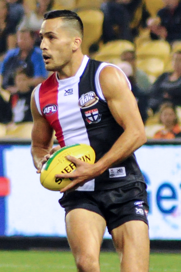 Shane Savage during the AFL round five match between St Kilda and Greater Western Sydney on 21 April 2018 at Etihad Stadium in Melbourne, Victoria.